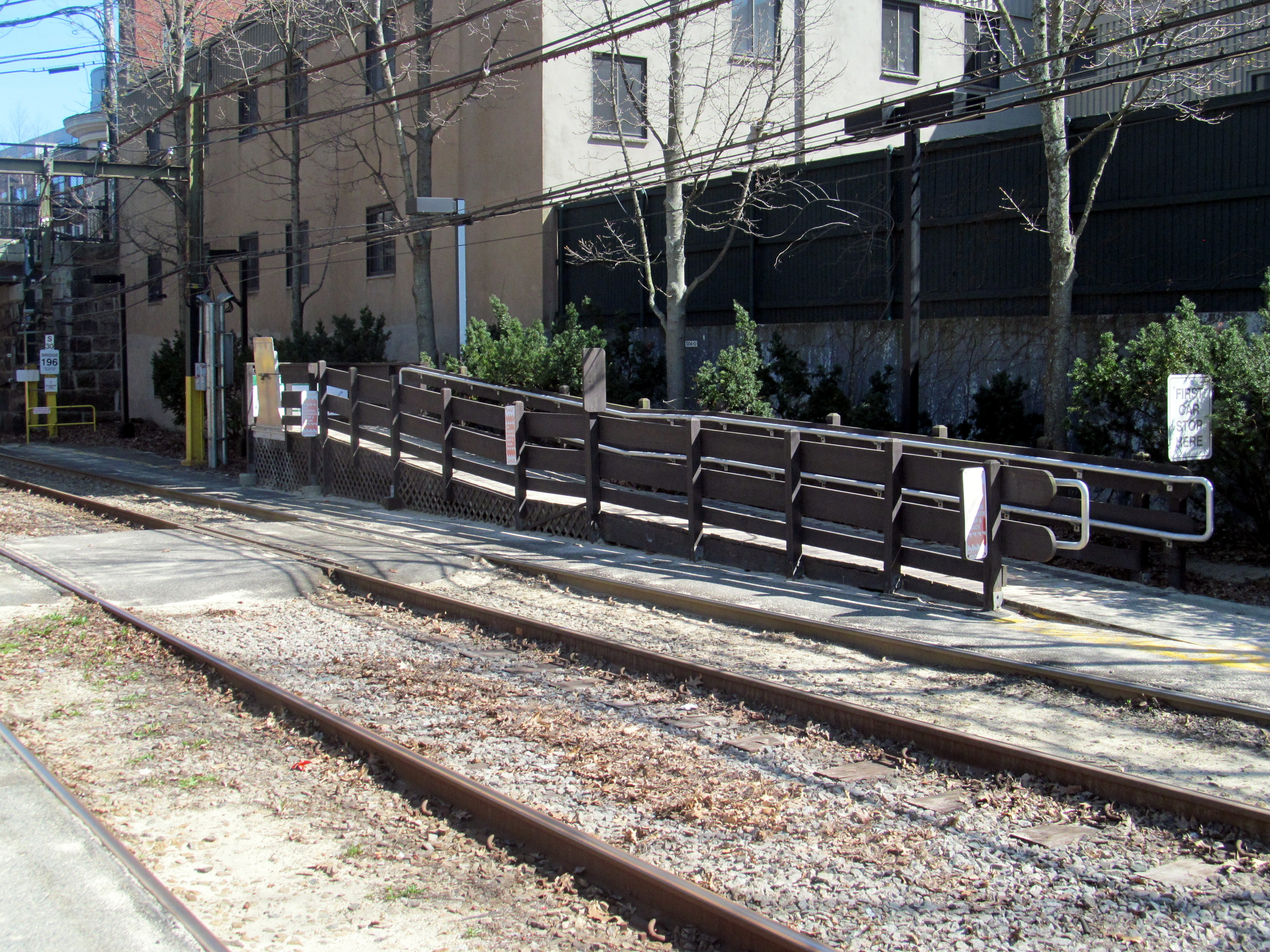 Wooden mini-high platform at Brookline Hills station in April 2016